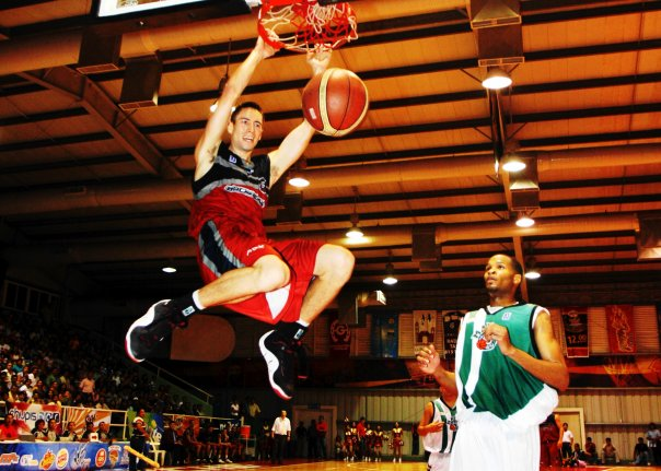 This is Anthony Fernandez dunking in a home game with the Campeche Bucaneros